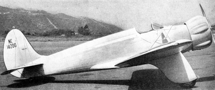 Kinner Sportwing photo from L'Aerophile October 1935